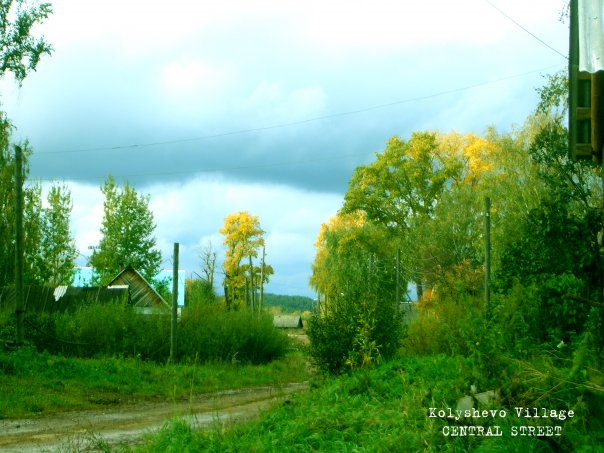 Kolyshevo